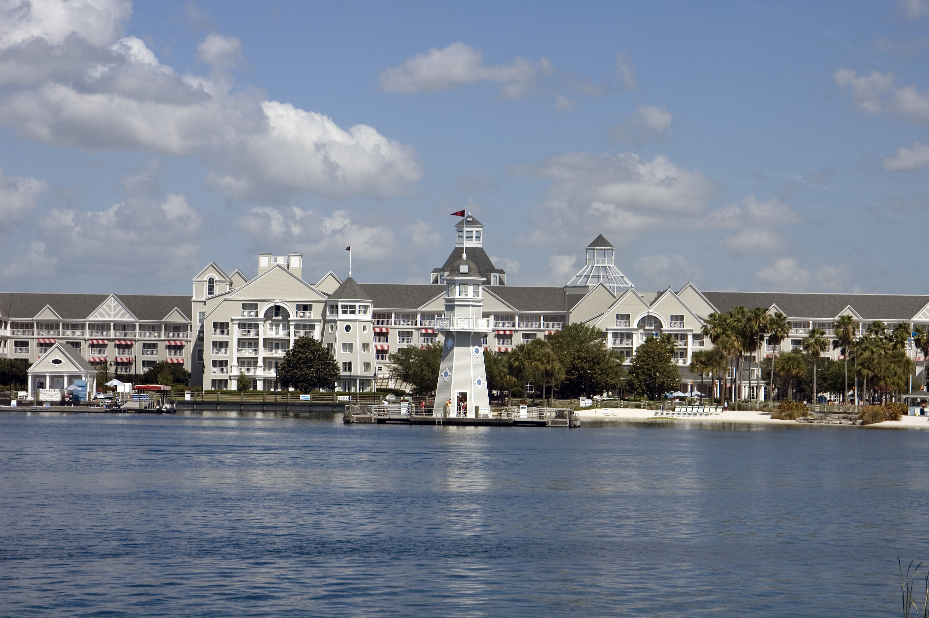 The view from our hotel across the water to the Disney Yacht Club Resort.